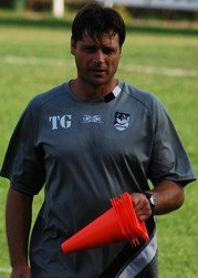 Istvan Dudas, serbian goalkeeper and goalkeeper coach